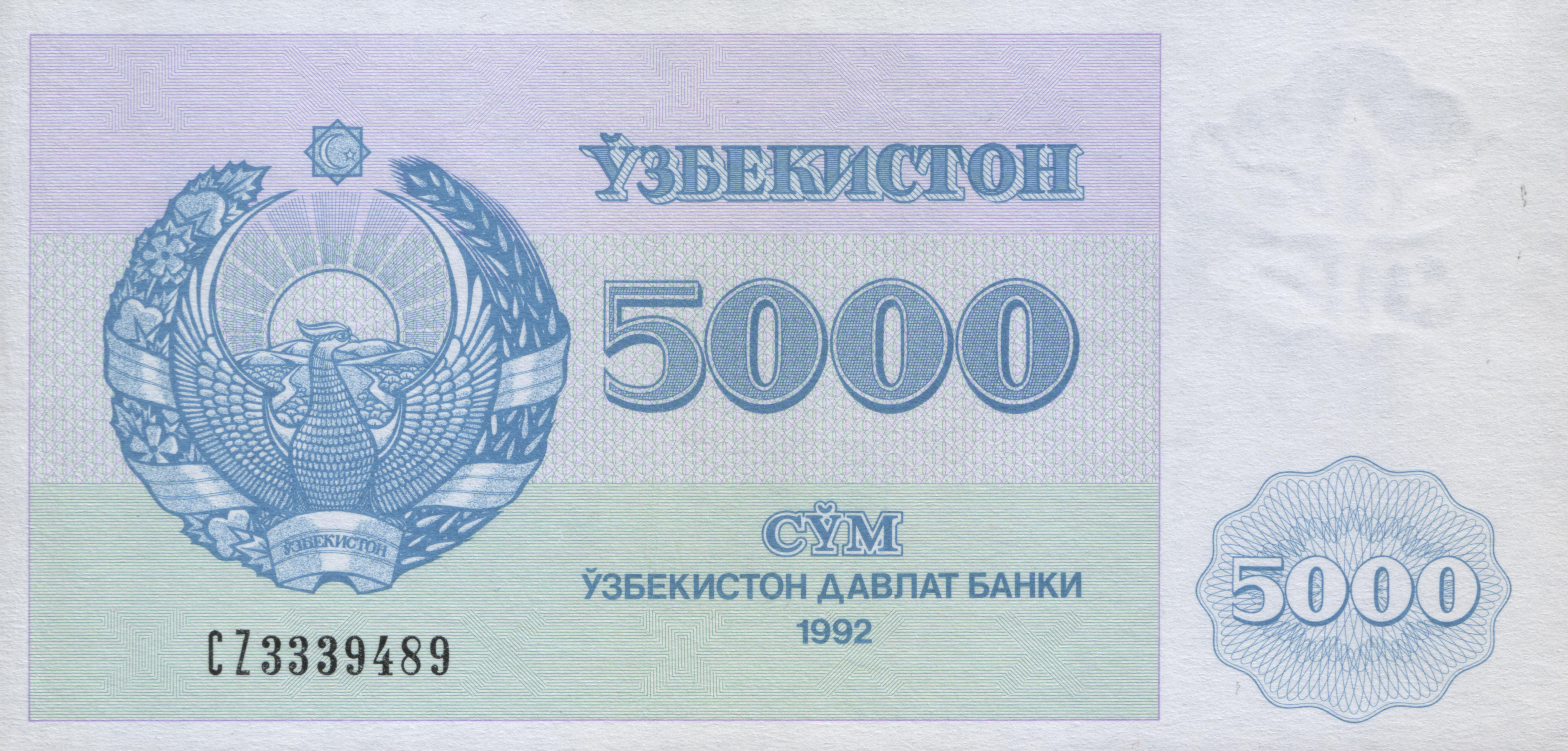 5000 sum of Uzbekistan (1992)